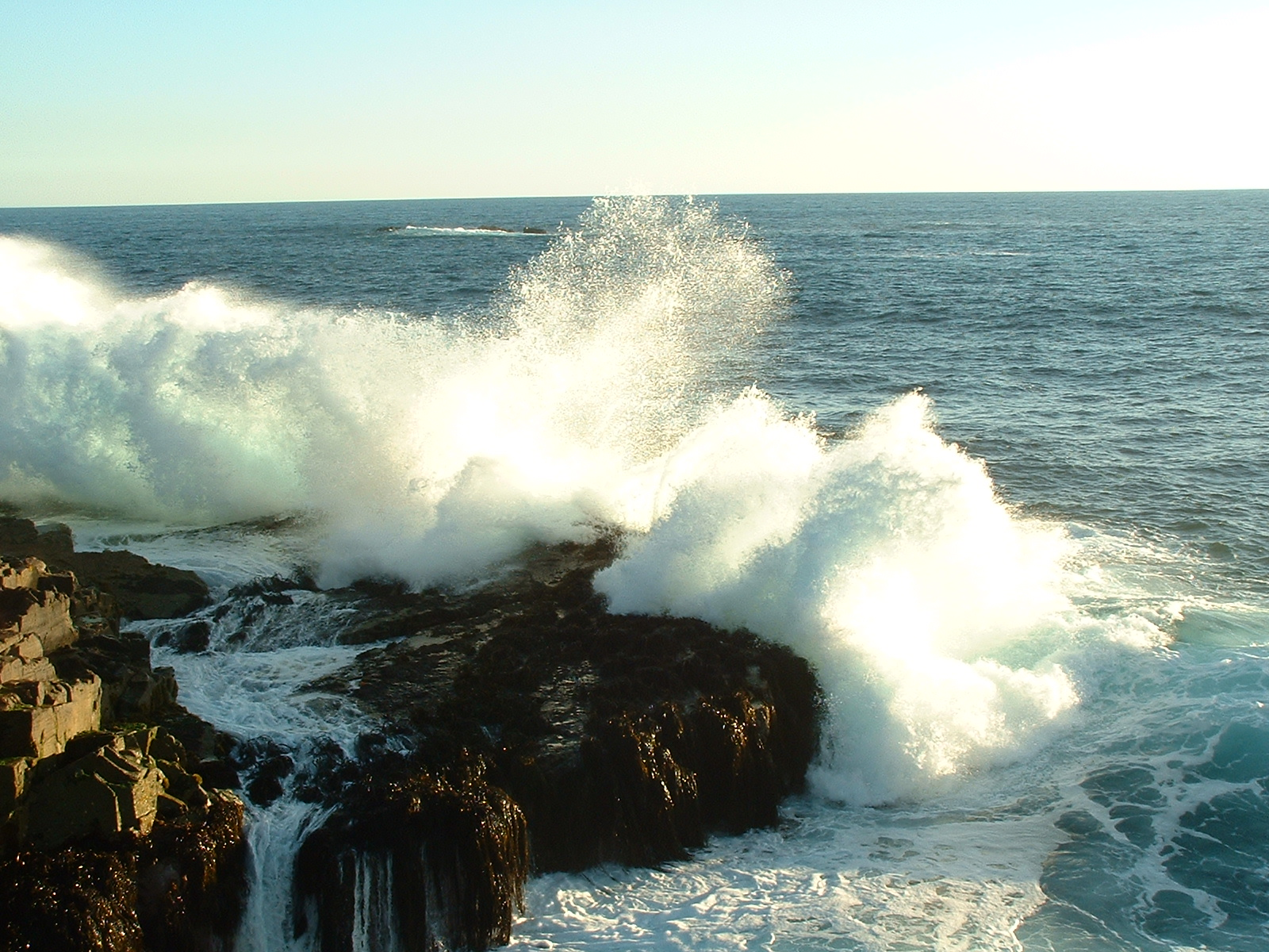 Taken by User:Cantus in 2006. Chilean coast.